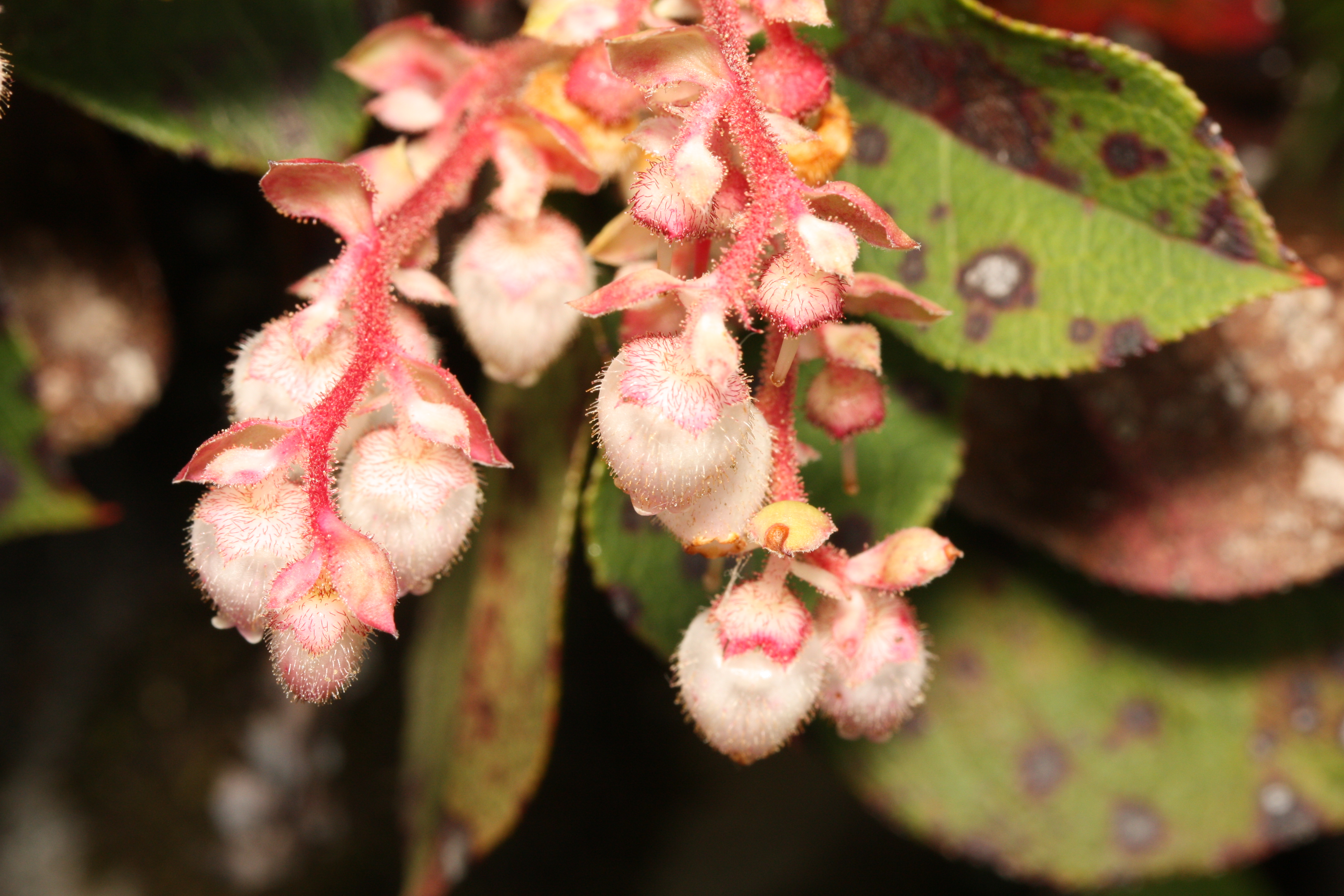 Salal